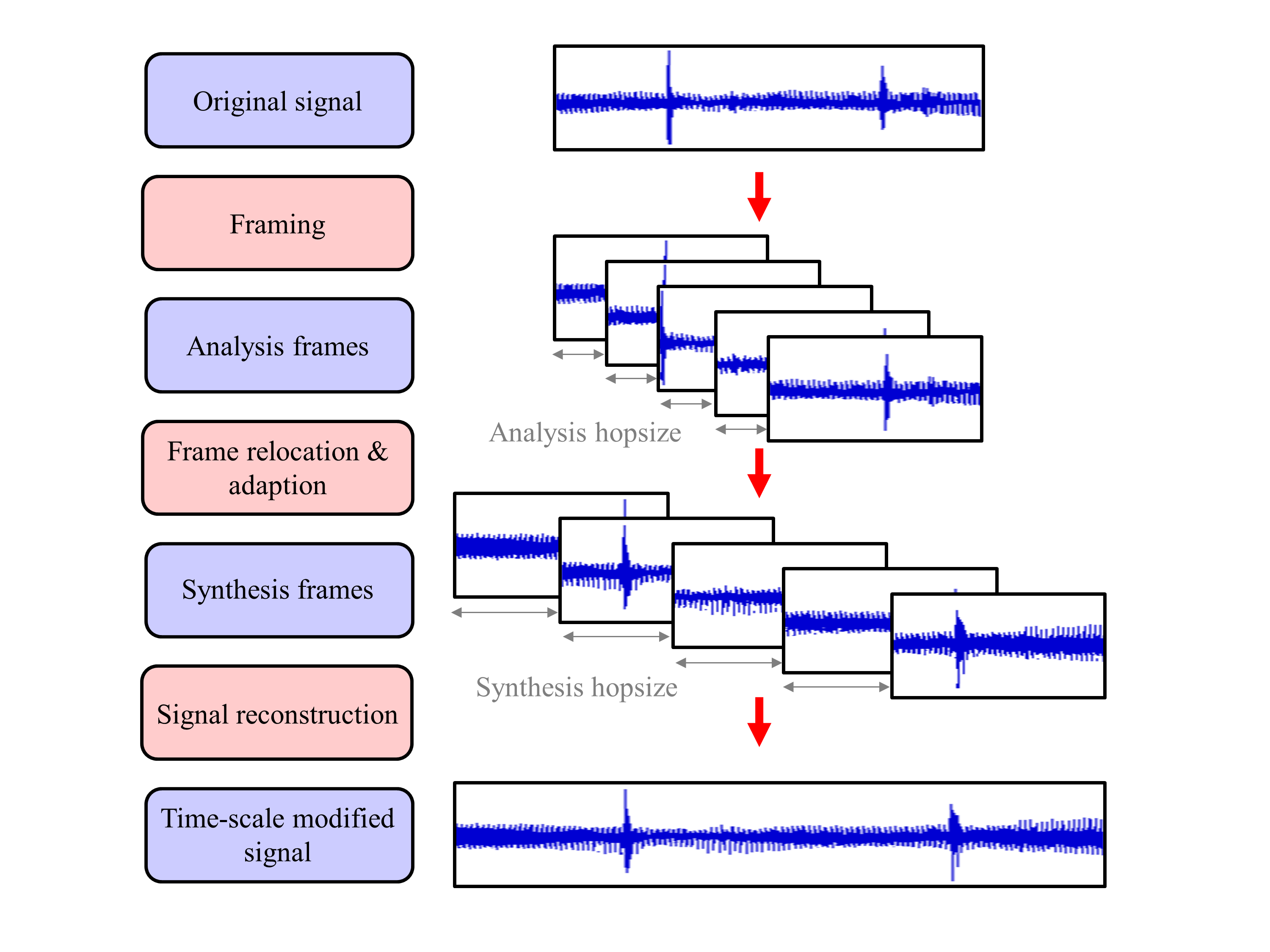 Fundamental principle of many TSM procedures